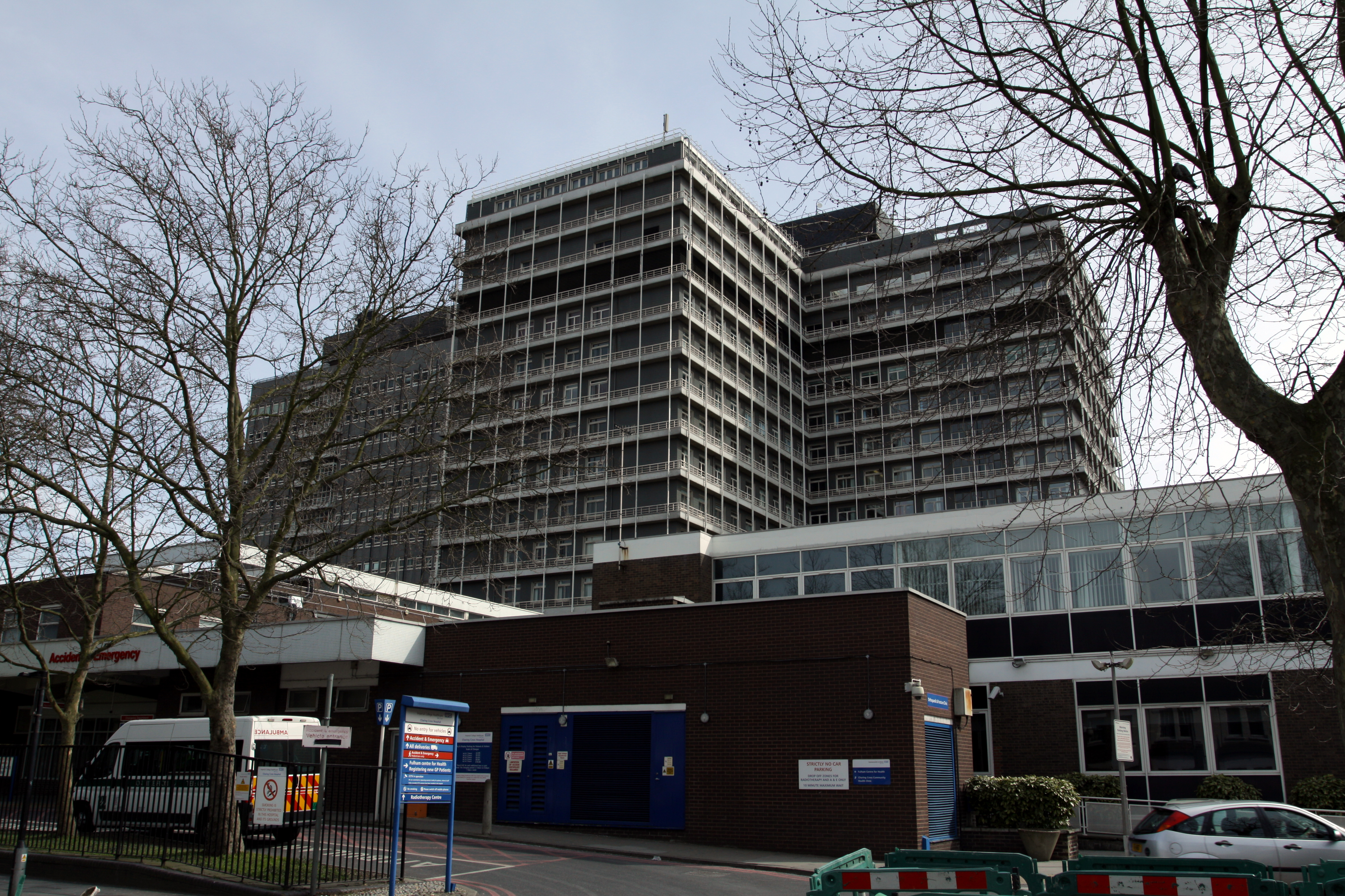 Charing Cross Hospital in the London Borough of Hammersmith and Fulham, London, Great Britain. The making of this file was supported by Wikimedia UK.